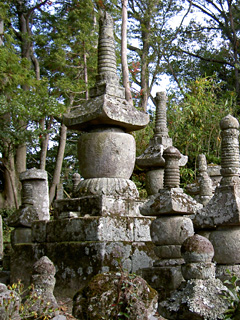 Kunisakito-02